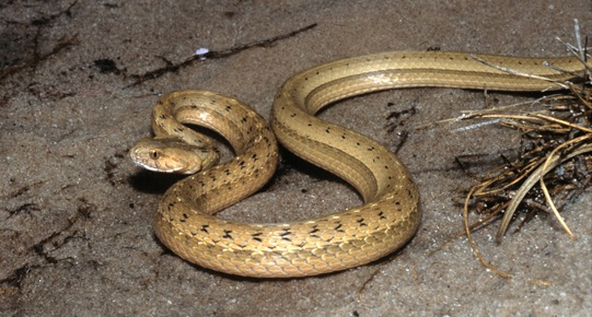 Thamnodynastes hypoconia in Lençóis Maranhenses National Park, Maranhão State, Northeastern Brazil. Photo by J. P. Miranda.